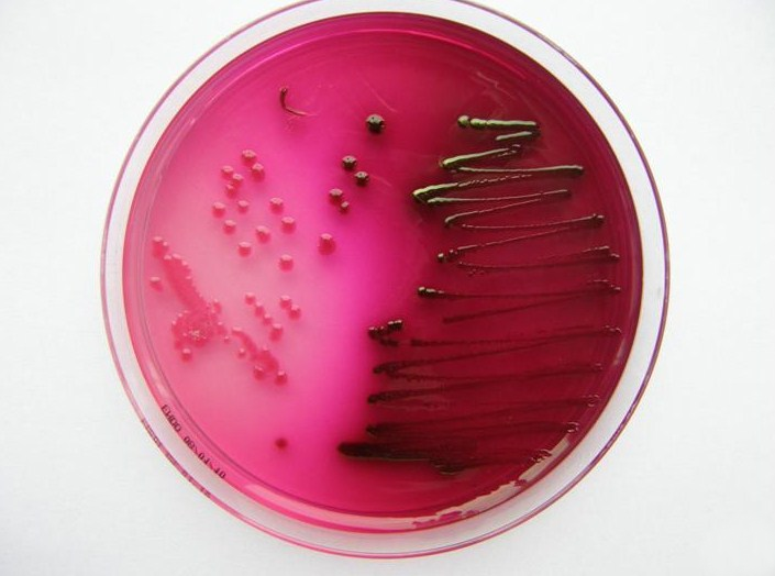 Escherichia coli in Endo's agar